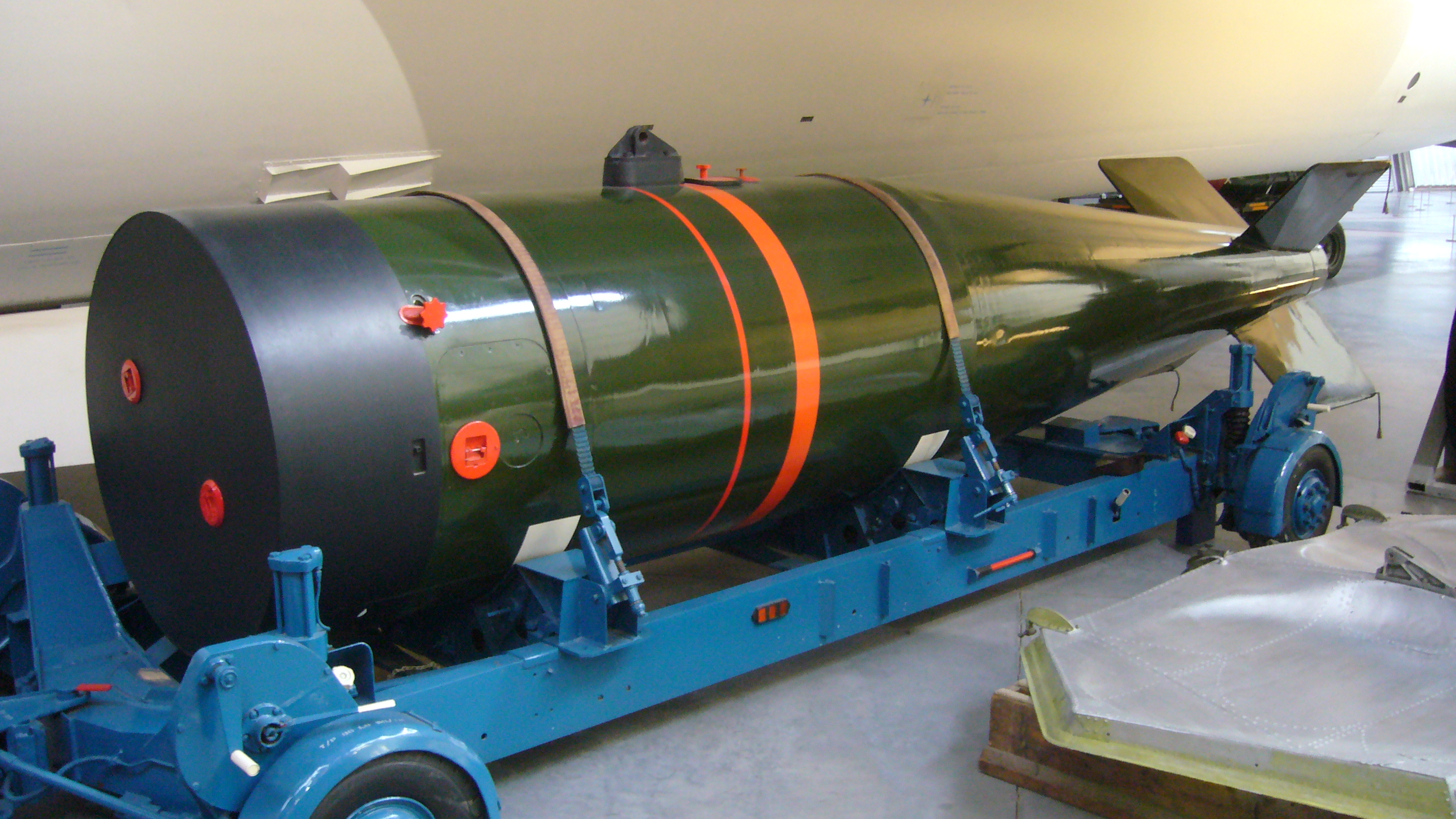 Oblique view of a British "Yellow Sun" nuclear bomb, photographed under the wing of a Vickers Valiant bomber at RAF Cosford (Aerospace Museum), UK.